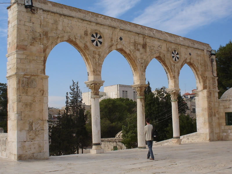 Al-Aqsa Mosque